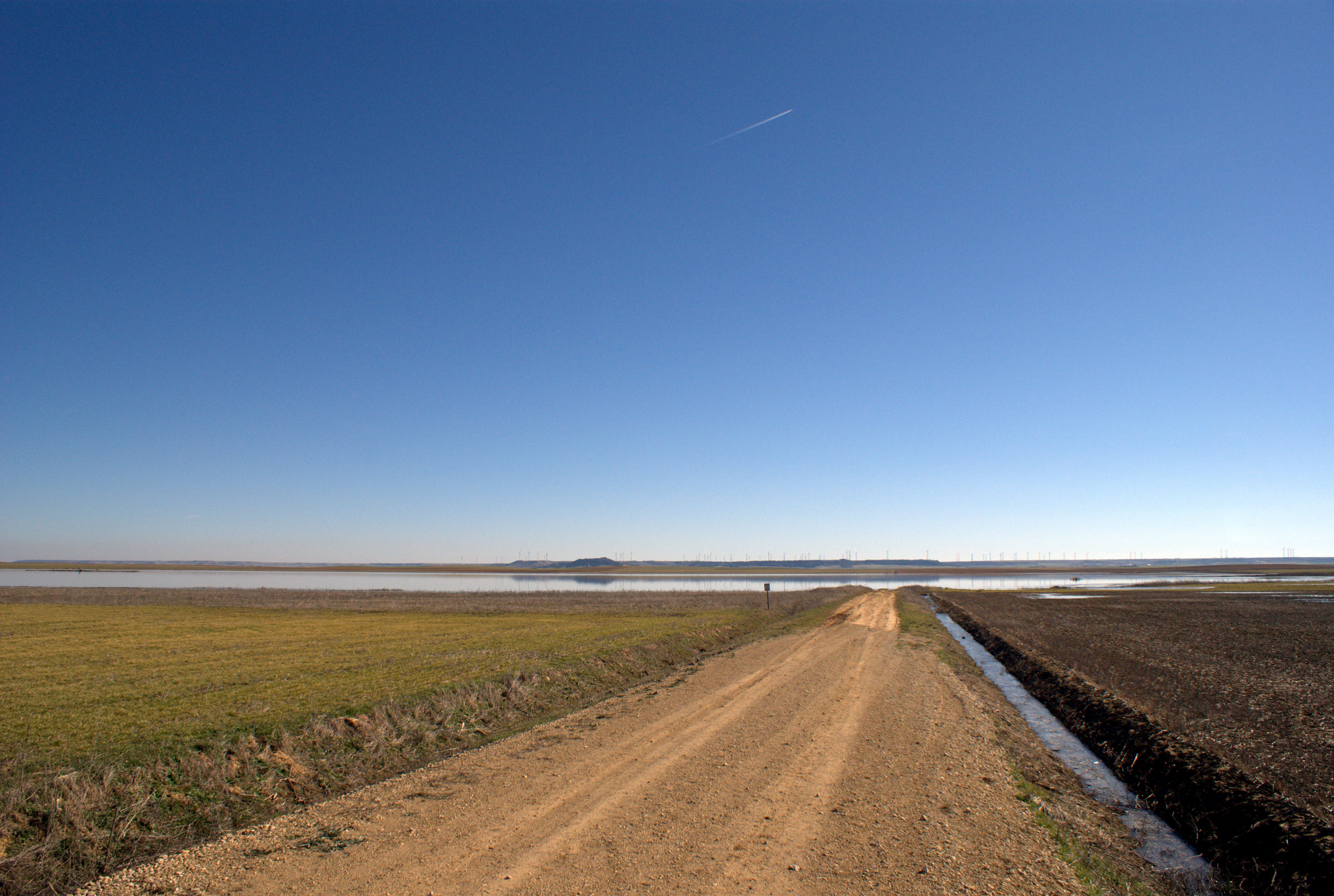 Boada lagoon (Province of palencia, Spain)